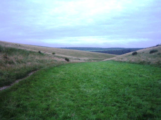 Tytherington Down near Tytherington 2. This view looking south-east with the light fading, shows the dry chalk valley within Tytherington Down, a Site of Special Scientific Interest (SSSI), see 494877.